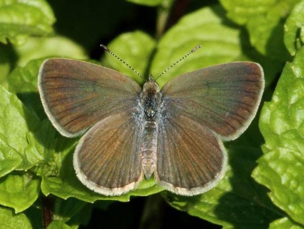 African grass blue Zizeeria knysna knysna from KwaZulu-Natal.